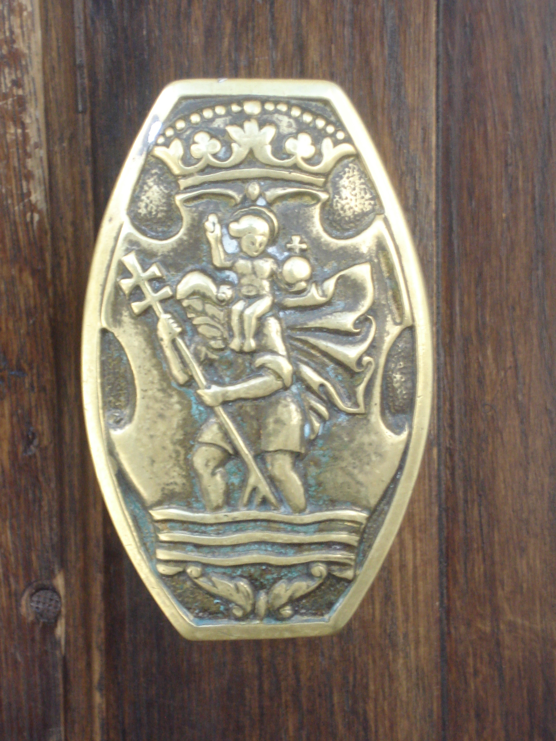 Town hall in Vilnius. Doorknob with Saint Christopher